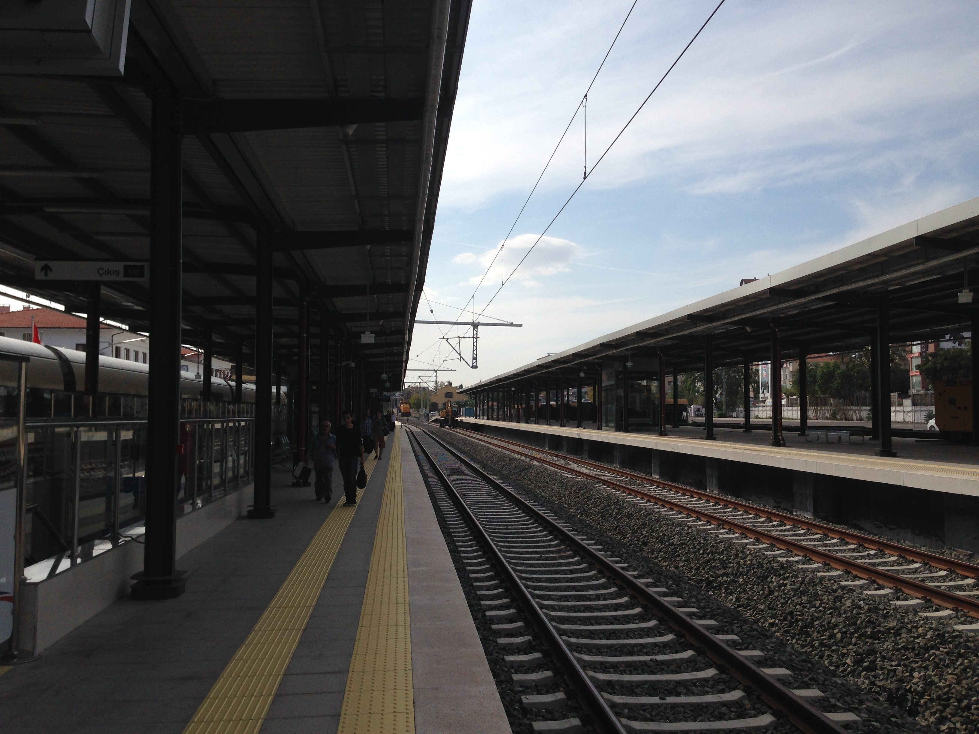 Pendik station after renovation.